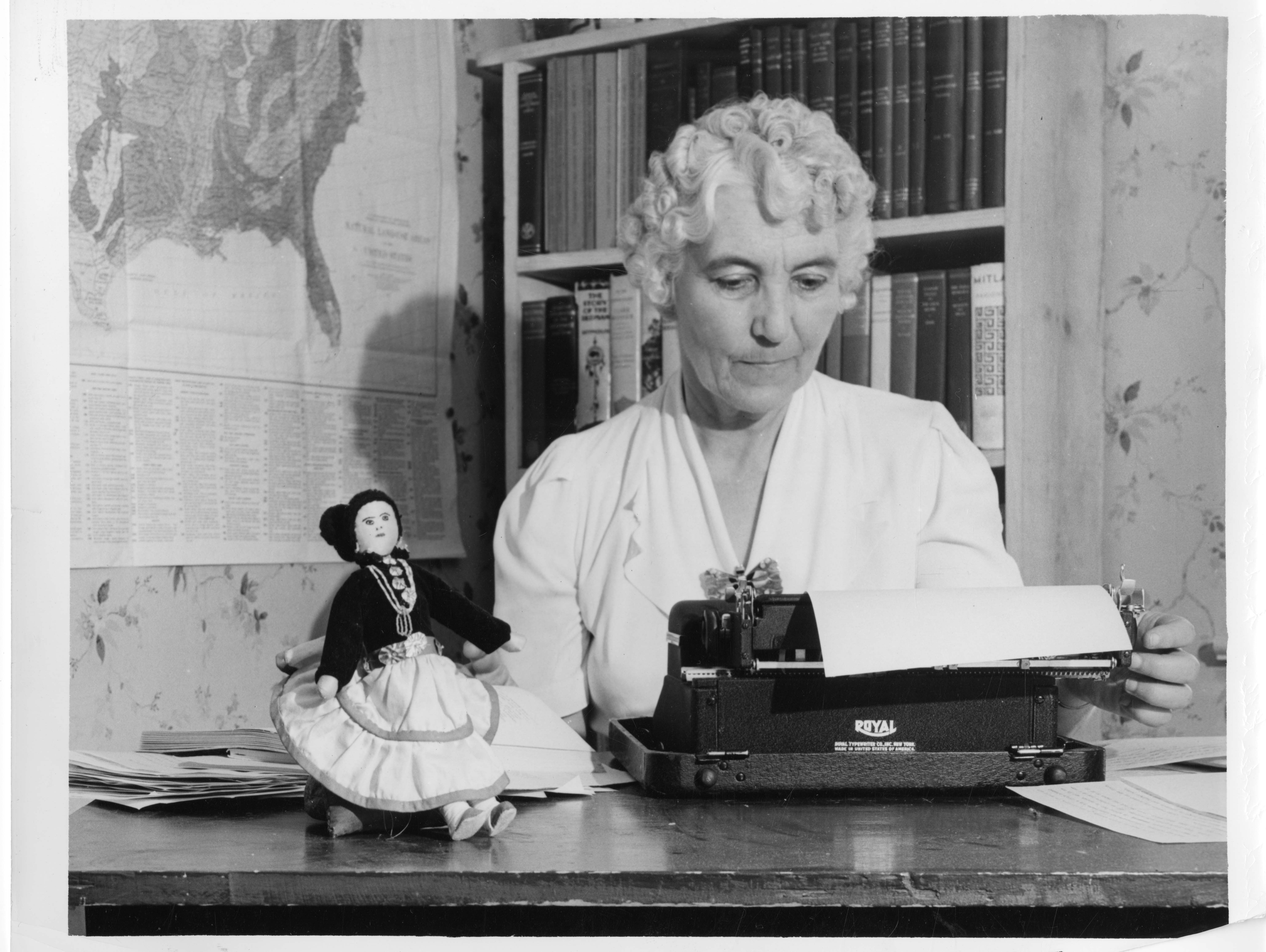 Ruth Murray Underhill (1883-1984) was among the first female anthropologists hired by the U.S. Bureau of Indian Affairs during the mid-1930s and was greatly involved with Navaho education projects